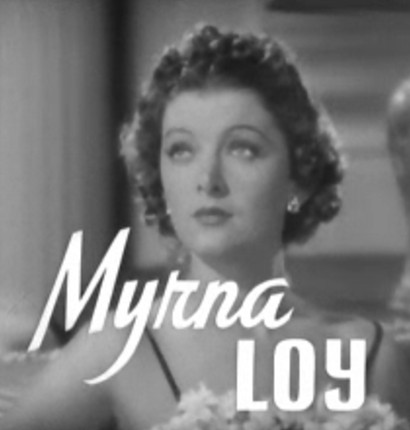 Cropped screenshot of Myrna Loy from the trailer for the film Libeled Lady (1936).